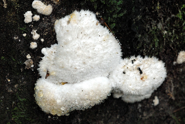 Postia ptychogaster from Commanster, Belgium. The determination of the species shown in this picture has been verified.